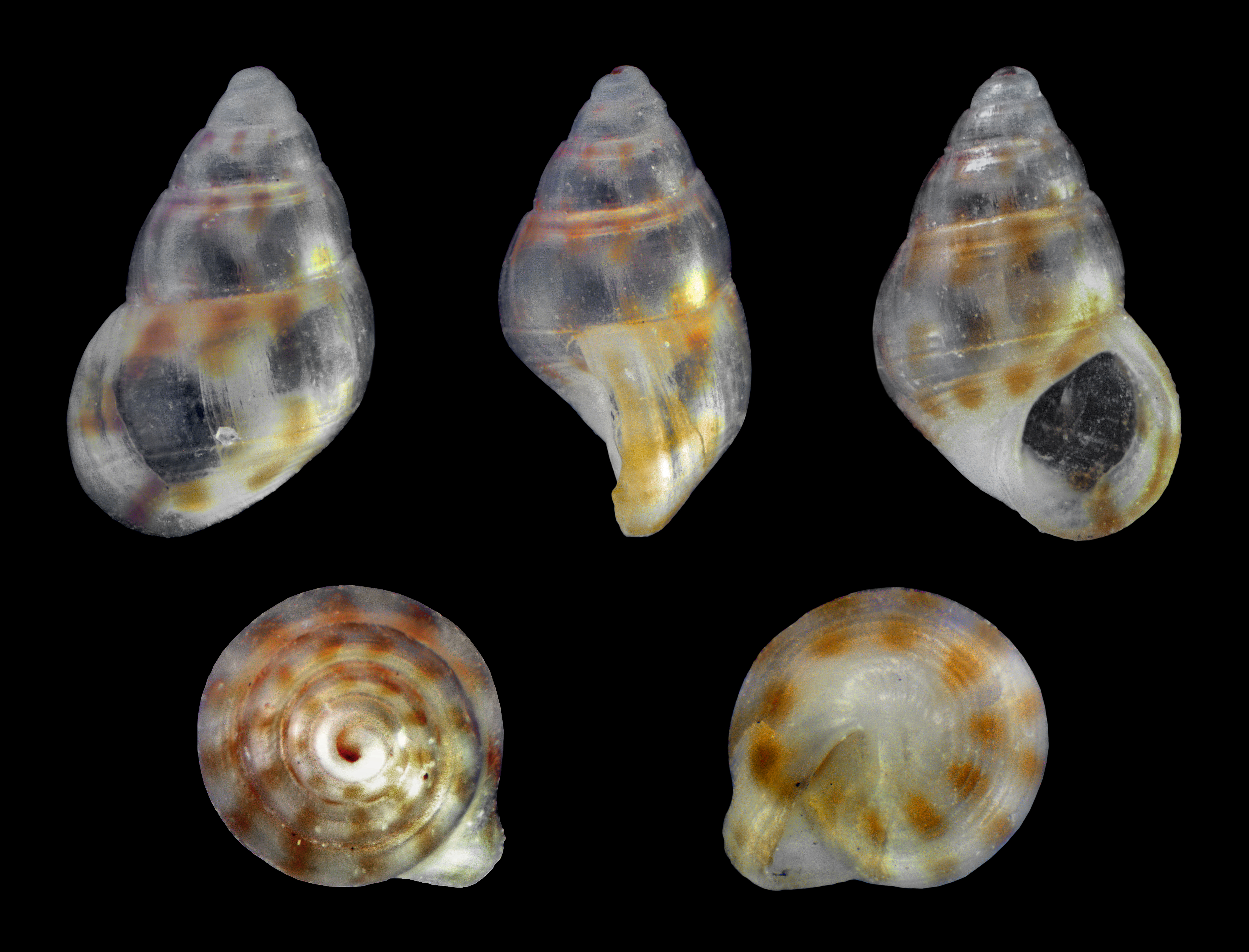 Length 0.2 cm; Originating from the Playa de San Telmo, Puerto de la Cruz, Tenerife, Canary Islands, Spain 28°25′3.09″N 16°32′47.94″W / 28.417525°N 16.54665°W; Shell of own collection, therefore not geocoded. Dorsal, lateral (right side), ventral, back, and front view.